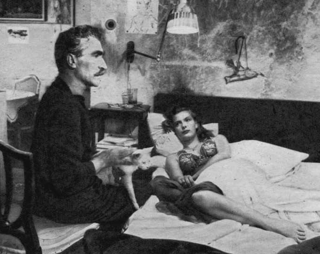 Orfeo Tamburi, Andrée Debar and Saha the cat in the segment Envy from the film The Seven Deadly Sins (1952).